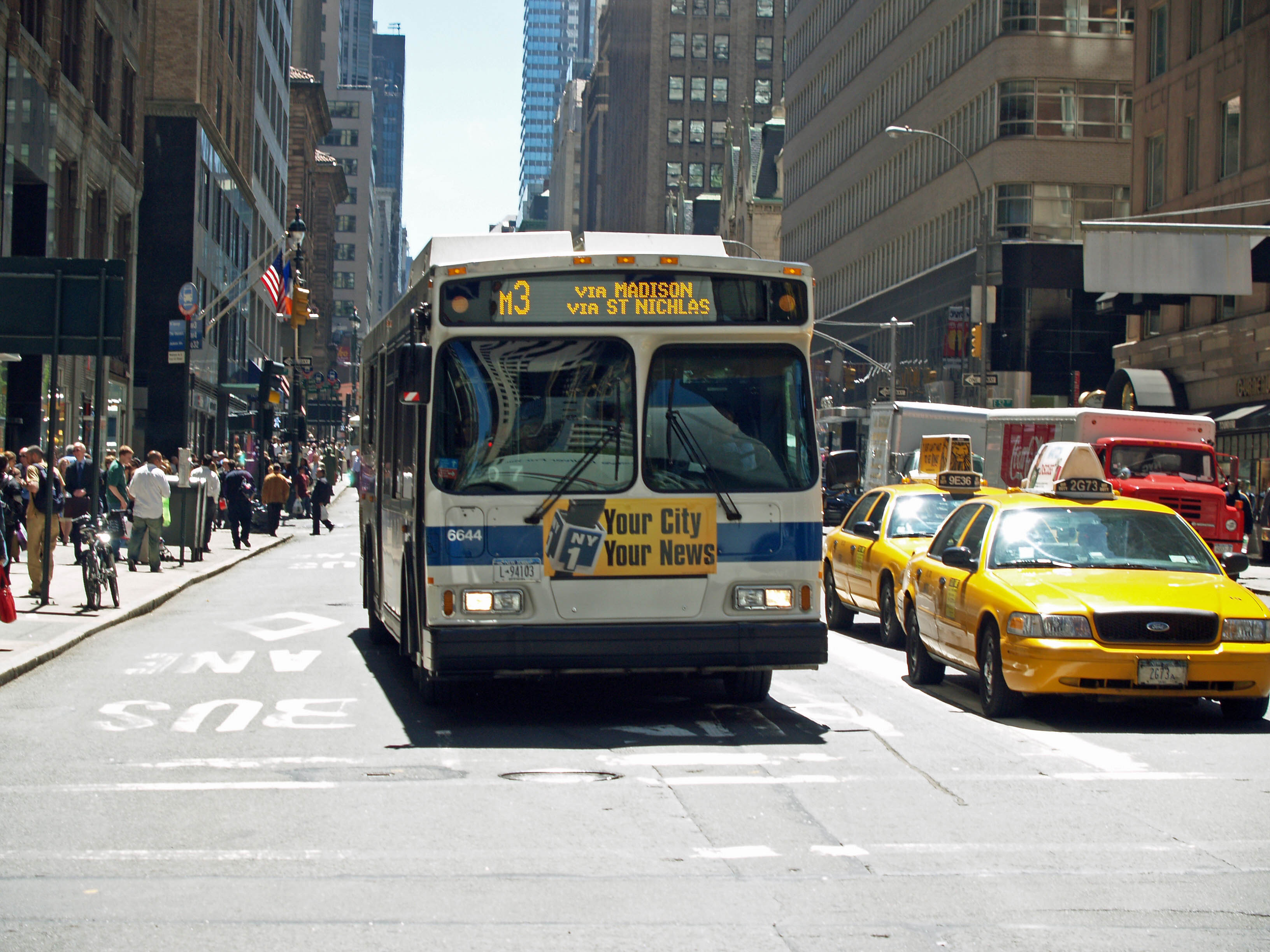 M3 on Madison Avenue